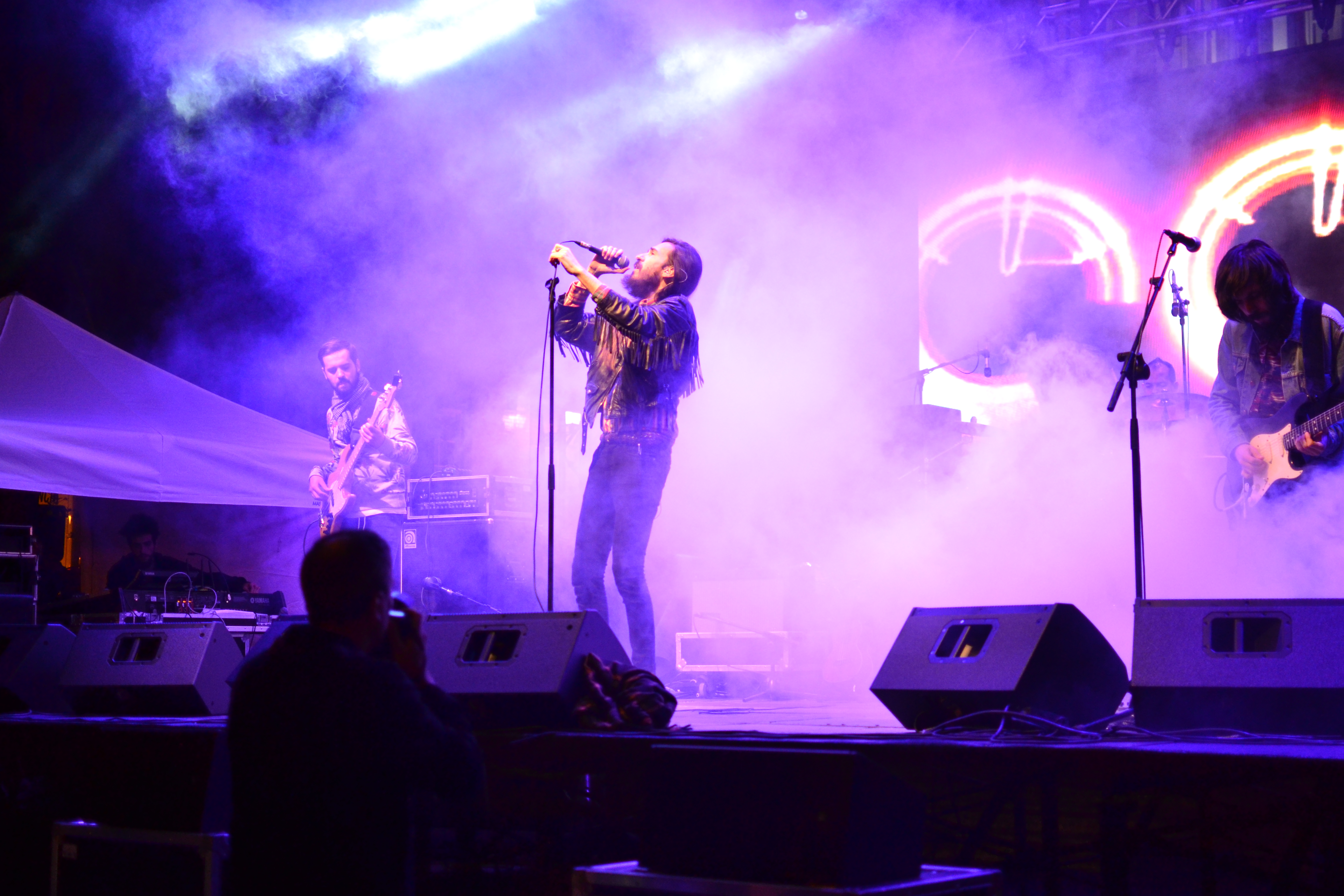 Carlos Sadness in concert at Monopol Music Festival in 2017.